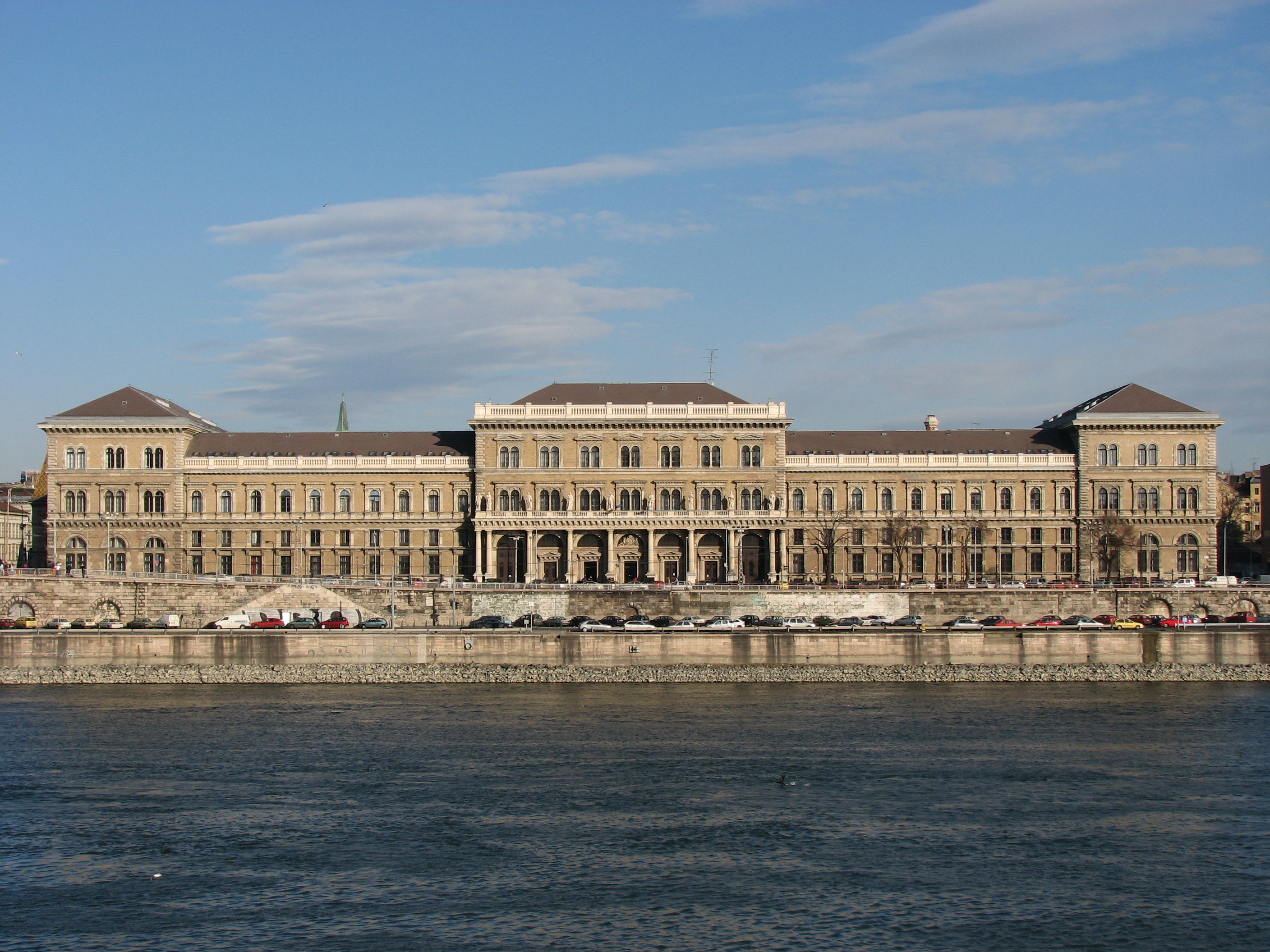 The main building of the Corvinus University of Budapest ("közgáz")